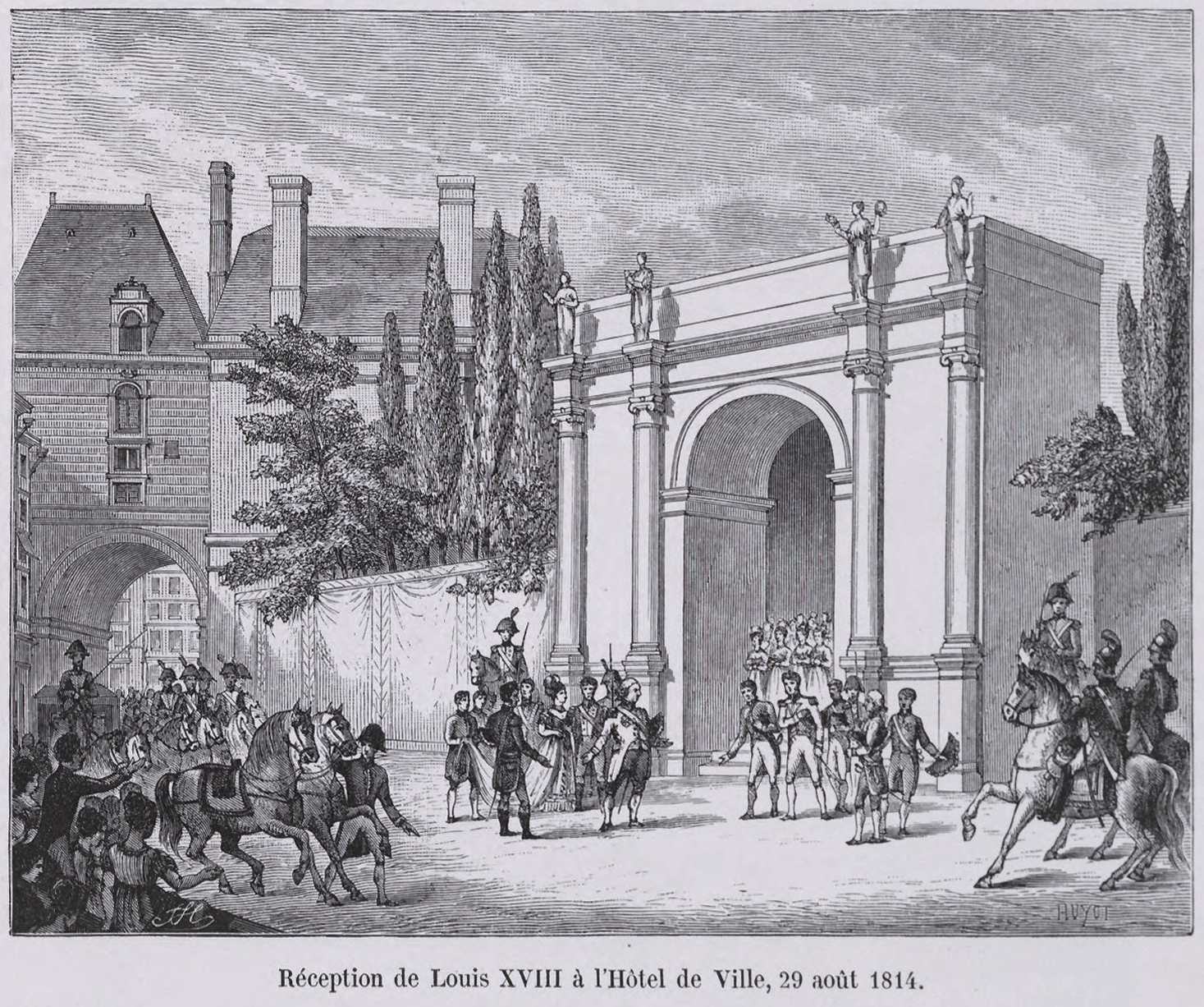 This illustration depicts a true Restoration scene: Louis XVIII makes a triumphant return at the Hôtel de Ville on August 29th, 1814.